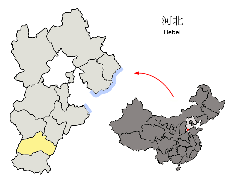 Location of Xingtai Prefecture (yellow) within Hebei Province of China Map drawn in december 2007 using various sources, mainly : Hebei Province administrative regions GIS data: 1:1M, County level, 1990 Hebei Counties map from